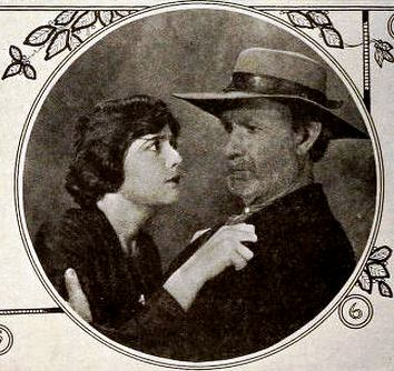 Still for the American western film The Covered Wagon (1923) with Ernest Torrence and Lois Wilson, on page 190 of the December 23, 1922 Exhibitor's Trade Review.